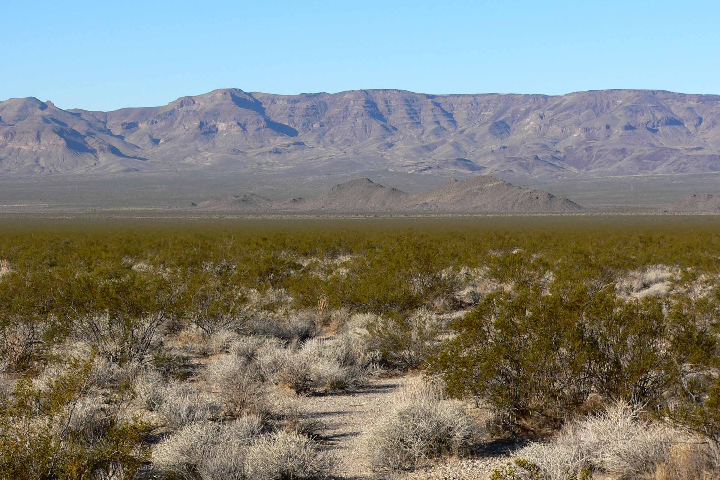 The Piute Range seen from Piute Valley, Nevada/California border.